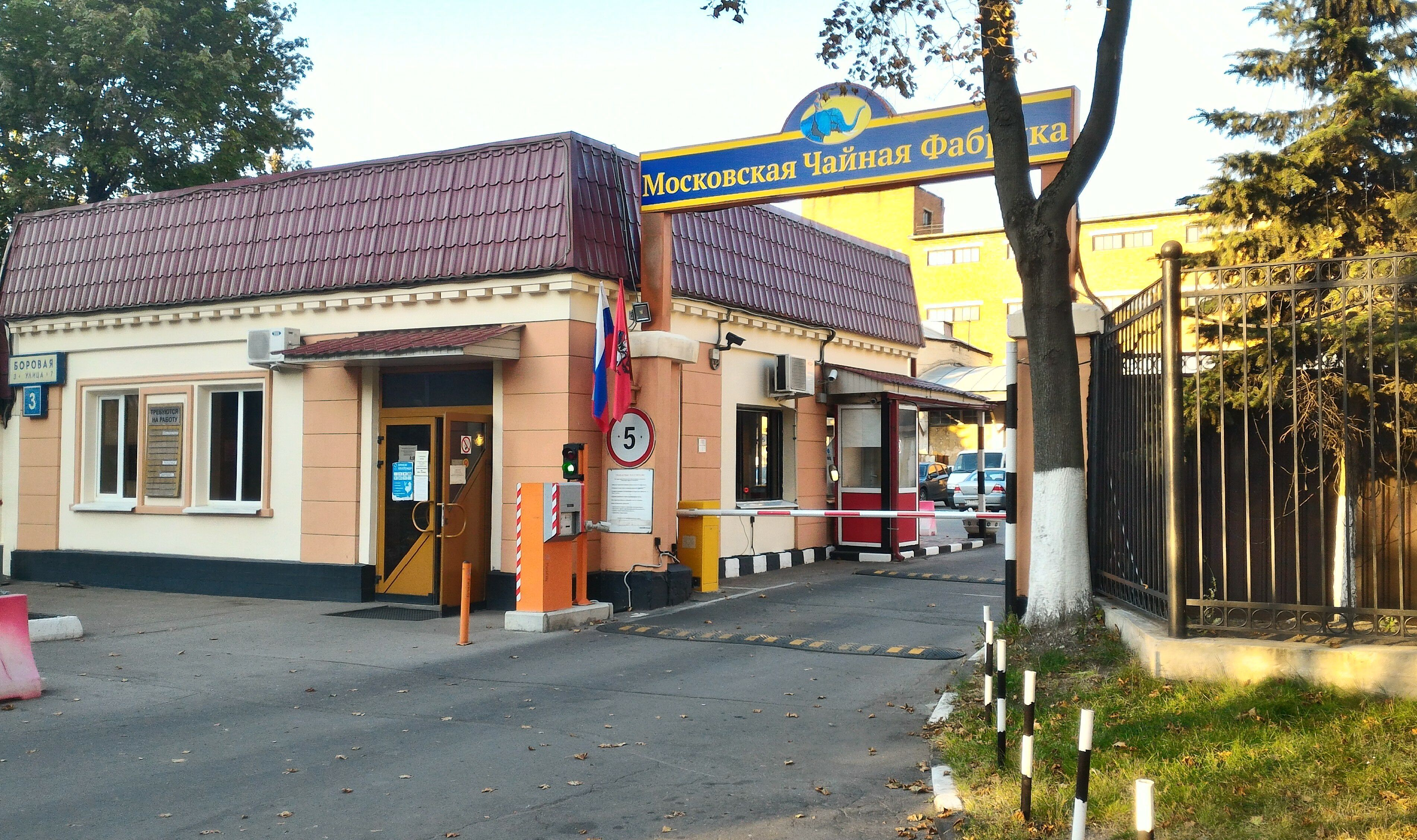 Московская чайная фабрика